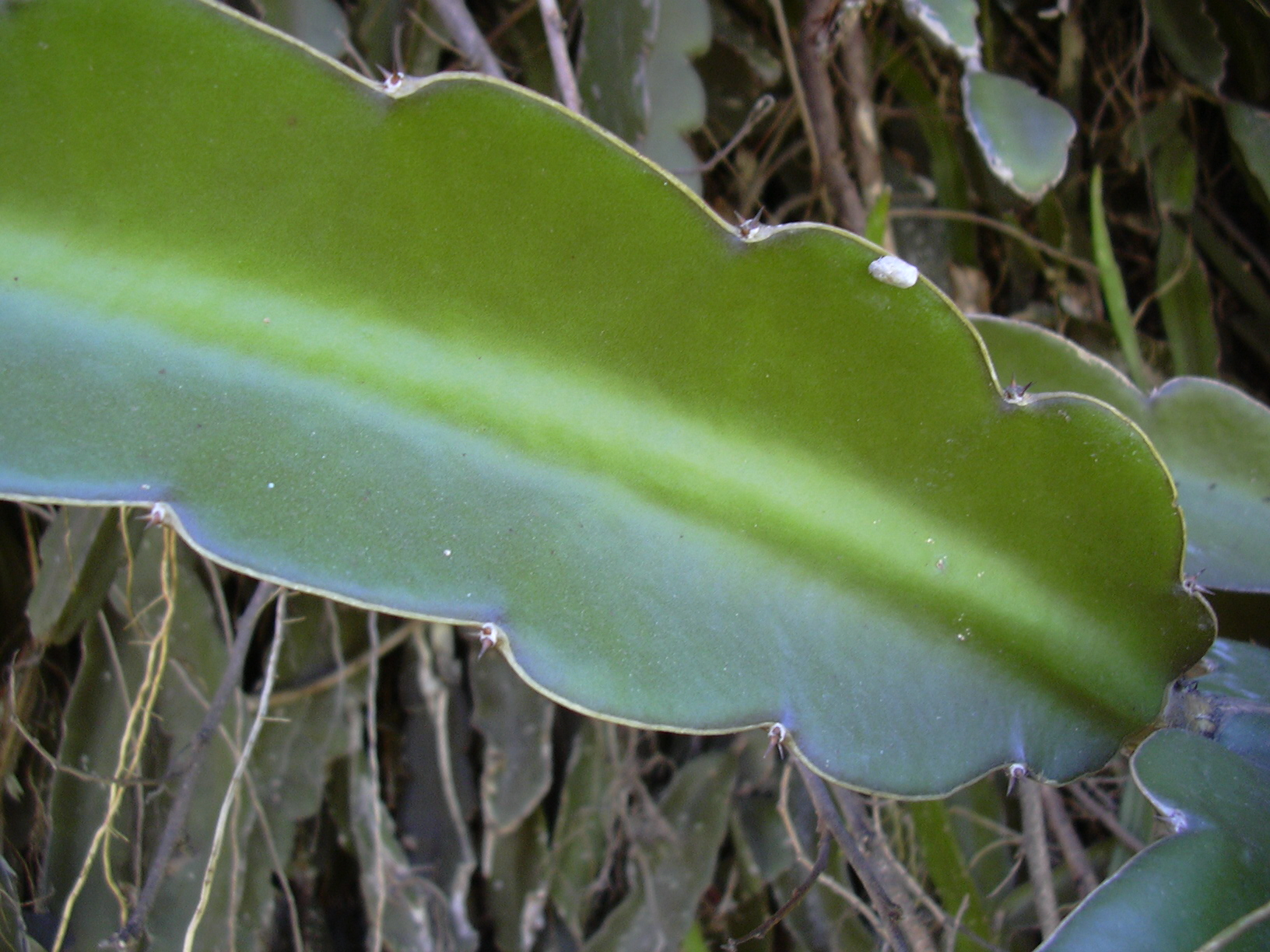 Hylocereus undatus (branch and prickles). Location: Maui, Baldwin Ave